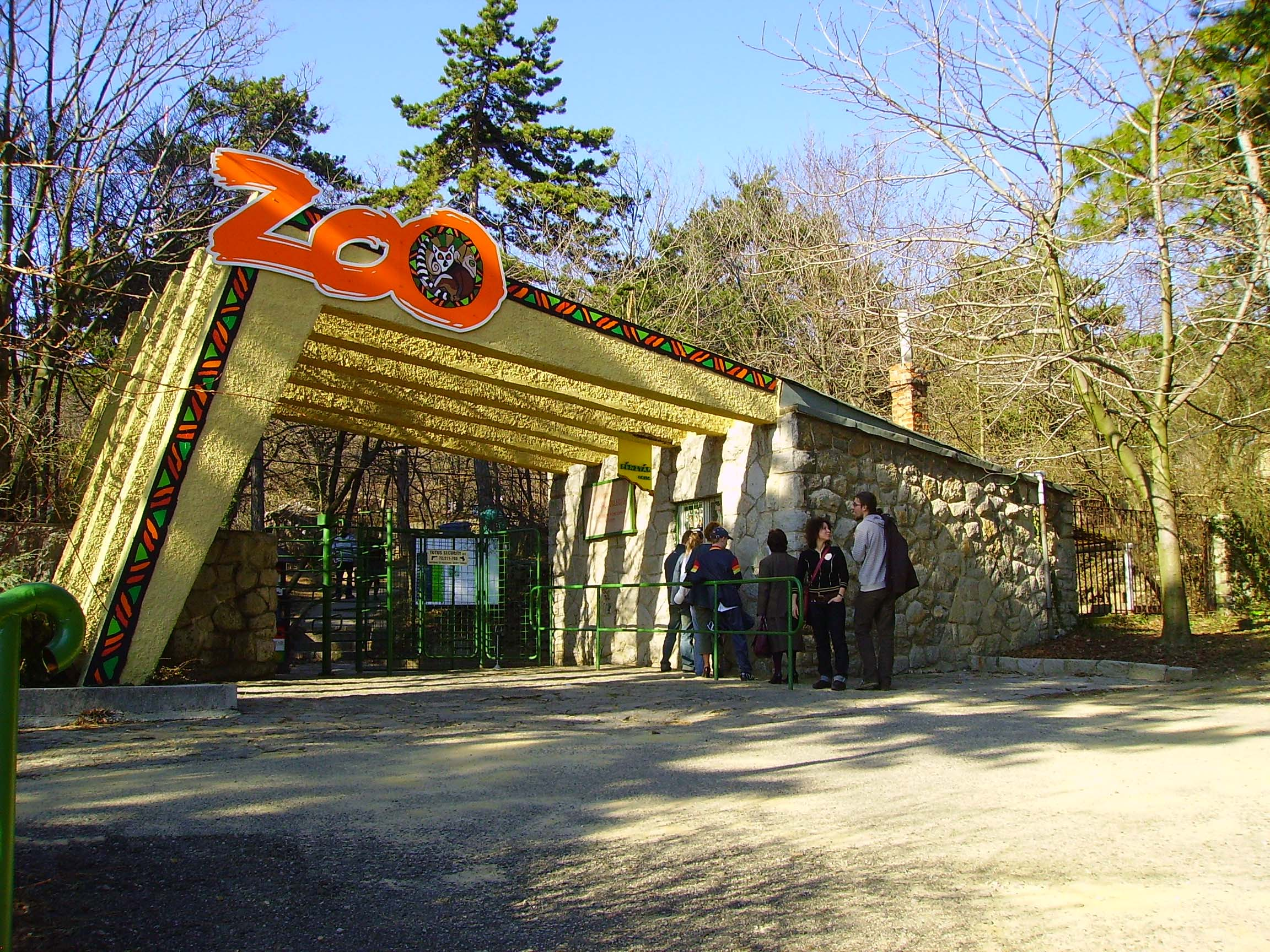 View of the entrance of Pecs Zoo, Pécs, Hungary